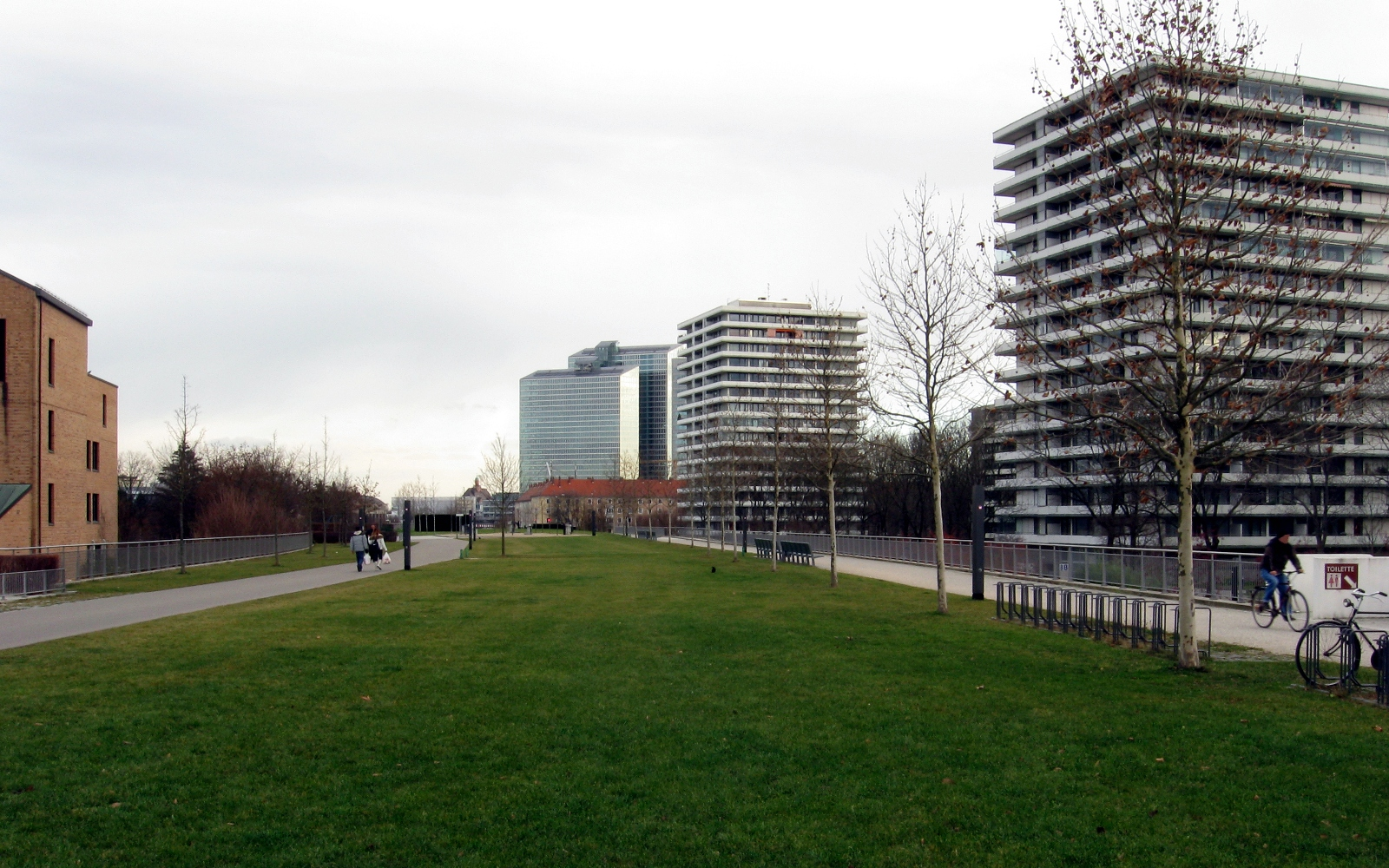 Petuelpark in Munich (Bavarian, Germany) near “Fontänenplatz” eastwards with the building “Münchner Tor” in the background.